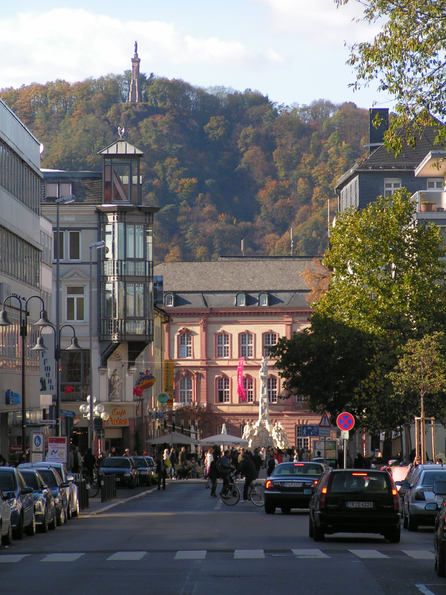 Mariensäule, Trier, Germany